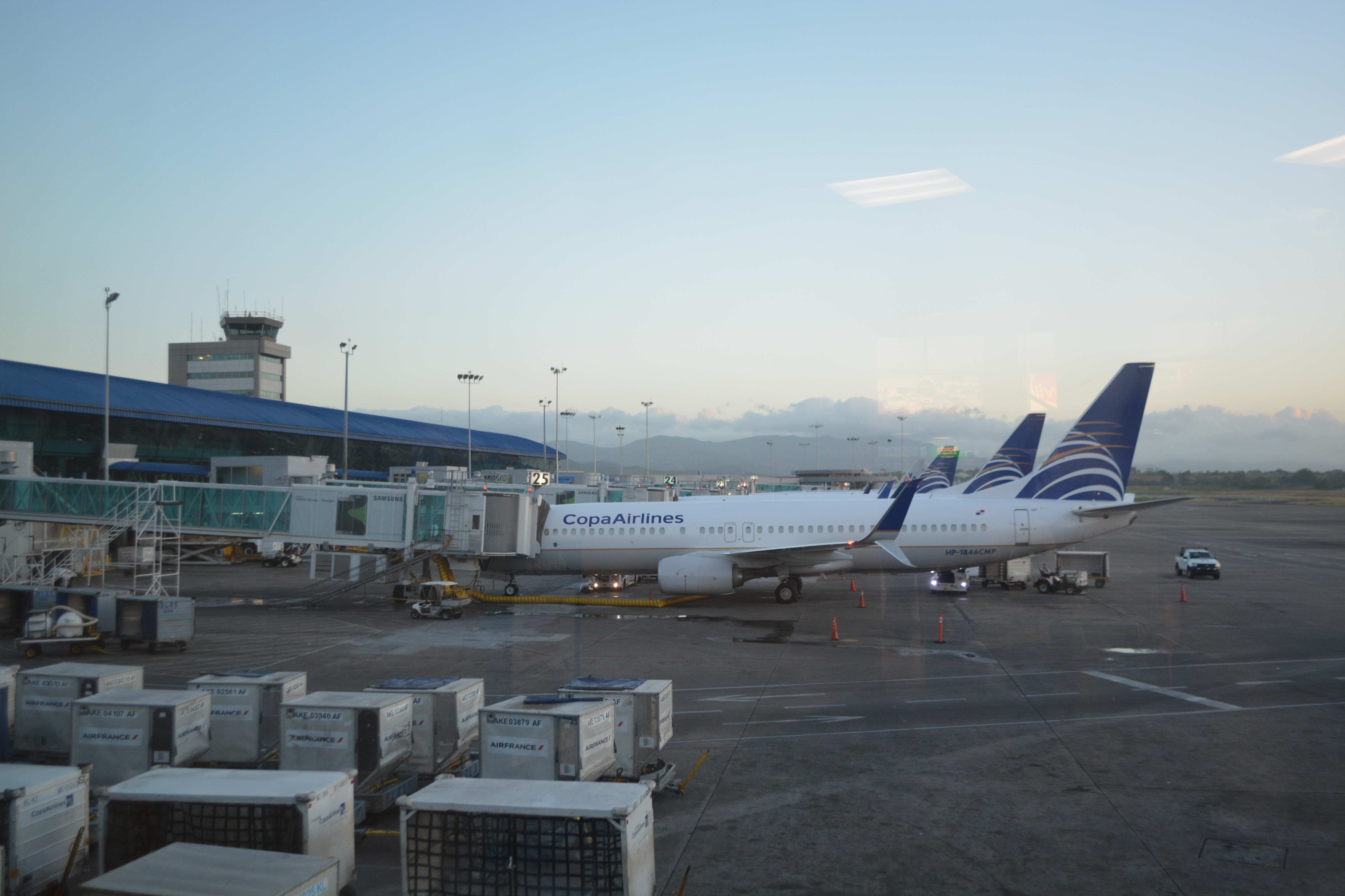 Copa Airlines planes. Tocumen International Airport, Panamá City.